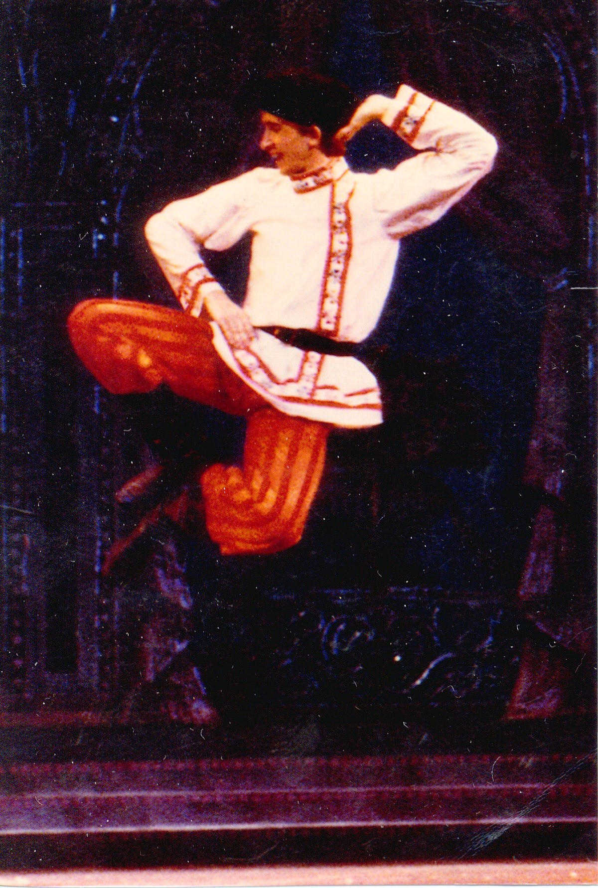 from the personal file of Stas Kmiec - Stas Kmiec in the Russian Trepak from the Nutcracker Ballet